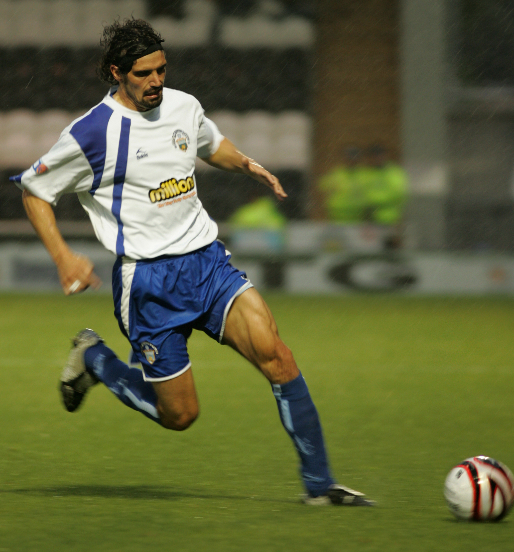 Greenock Morton (1) vs (2) St Mirren - Renfrewshire Cup Final 09'